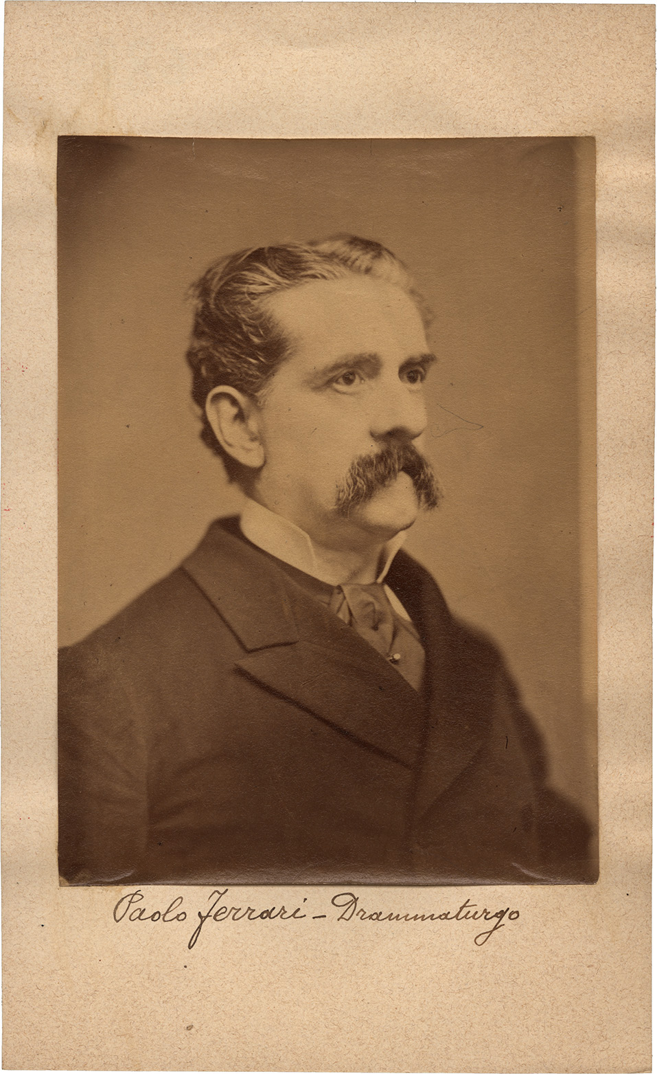 Portrait of Paolo Ferrari, playwright (1822-1889). Photo by unknown, before 1889.